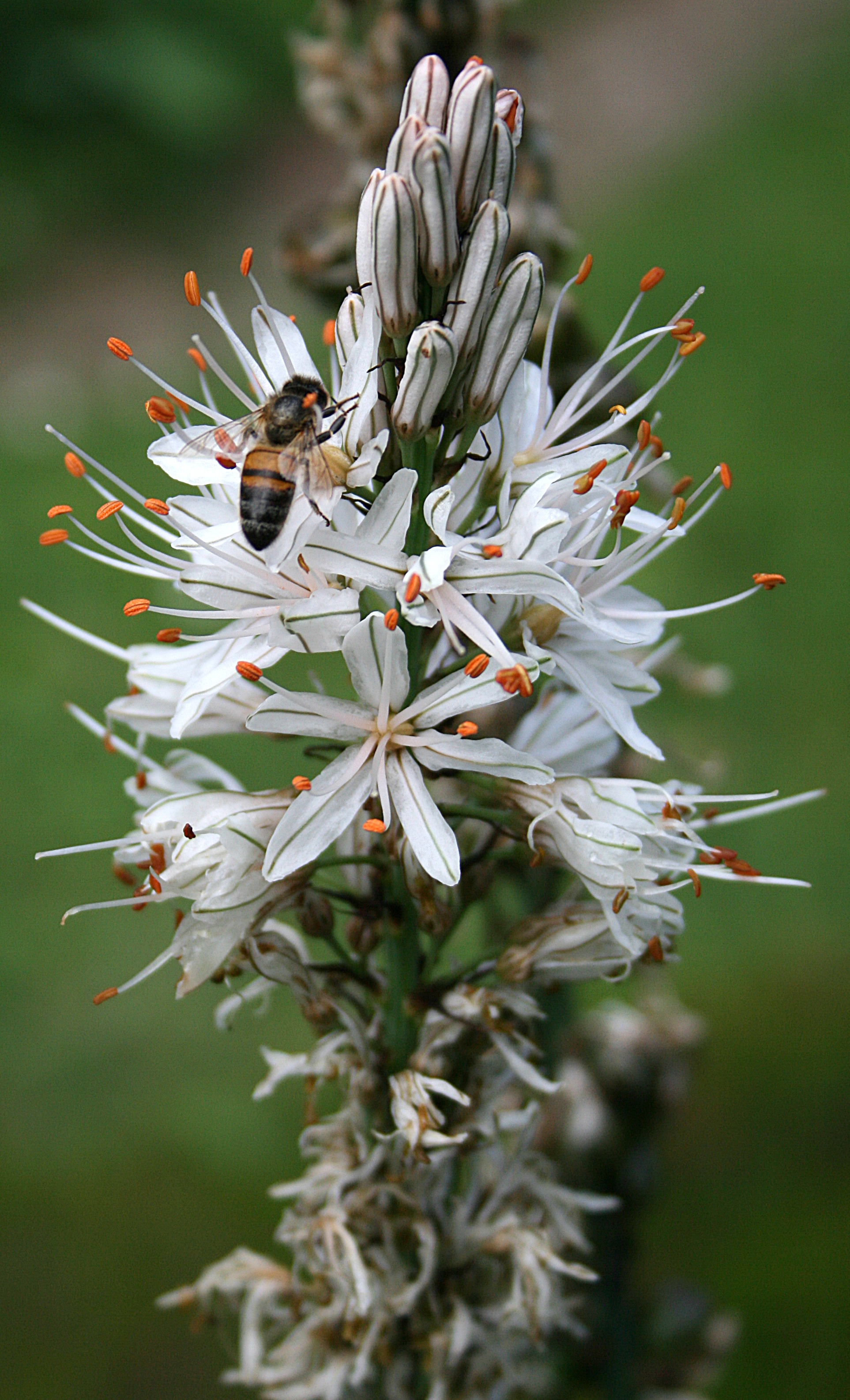 White asphodel